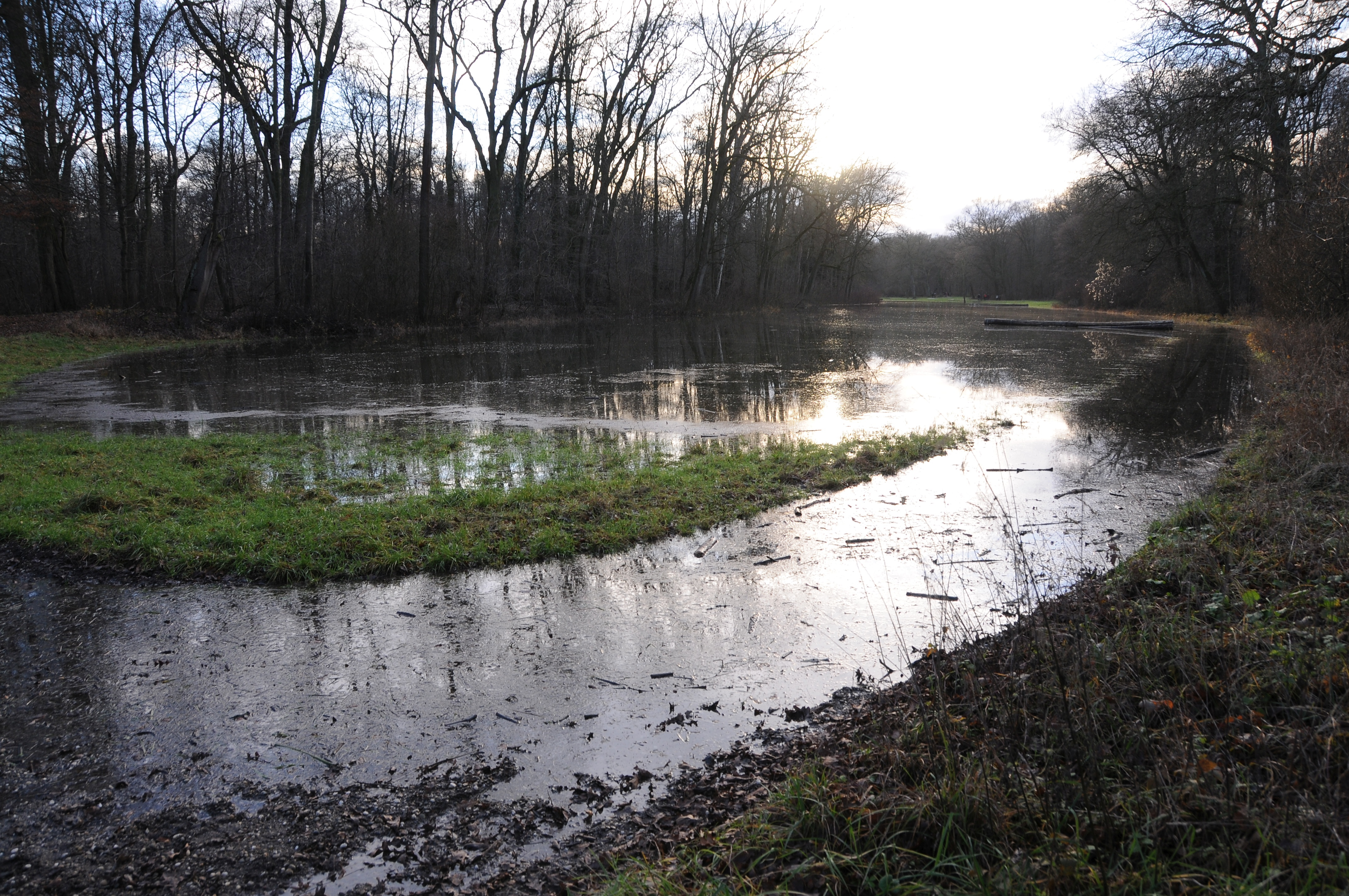 Forest park, Mannheim, Germany, grass with water from the ground at high Rhine water level